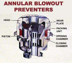 A blowout preventer.